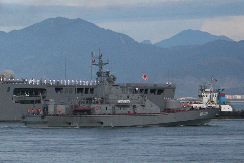 The Japan Maritime Self-Defense Force amphibious tank landing ship Kunisaki (LST-4003) approaches the port of Da Nang, Vietnam, the first stop for the ship during Pacific Partnership 2014. Pacific Partnership was in its ninth iteration and was the largest annual multilateral humanitarian assistance and disaster relief preparedness mission conducted in the Asia-Pacific region. In front of Kunisaki ist the Vietnamese TT400TP-class patrol boat HQ-274.